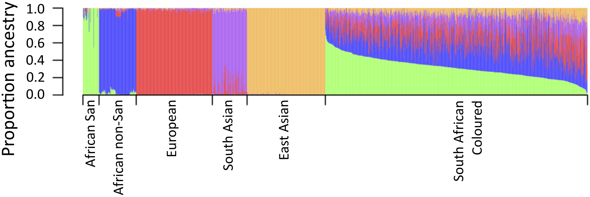 Barplots of ancestry proportions estimated using genome-wide data. Ancestry proportions were estimated using genome-wide data. The admixed study group (South African Coloured) is ordered by proportions of African San, African non-San, European, South Asian and East Asian ancestry. (Cropped from File:Barplots of ancestry proportions South African Coloured population estimated using genome-wide data and using AIMs.png.)